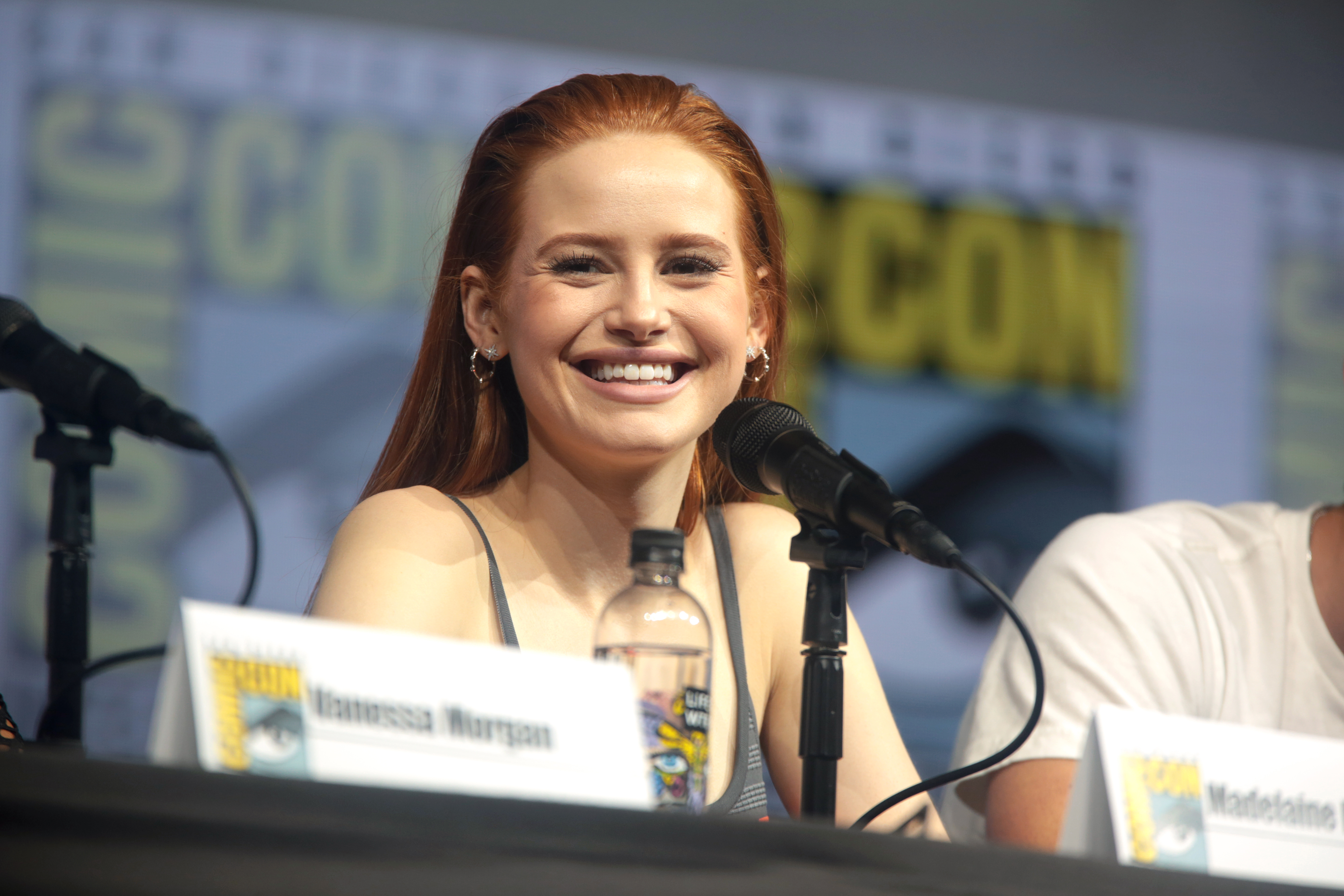 Madelaine Petsch speaking at the 2018 San Diego Comic Con International, for "Riverdale", at the San Diego Convention Center in San Diego, California.